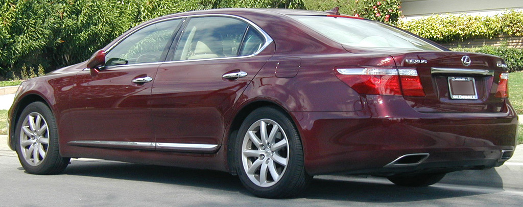 The 2007 Lexus LS 460 L, the long wheelbase version of the LS Series.